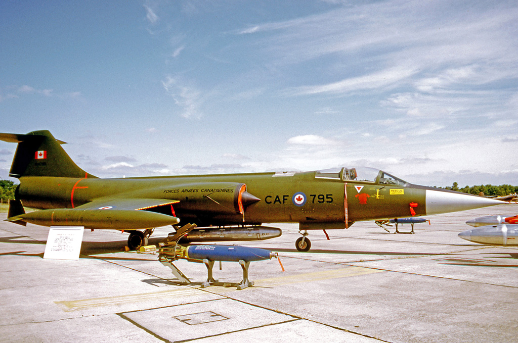 Lockheed (Canadair) CF-104G Starfighter of 421 Squadron Canadian Armed Forces at RAF Greenham Common in 1973